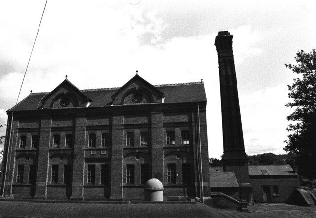 Addington Well Pumping Station The last UK site to use beam engines for pumping drinking water. Stopped 1975. Now gone. One engine at Strumpshaw Hall, one at Crossness. Steam crane engine also at Crossness.